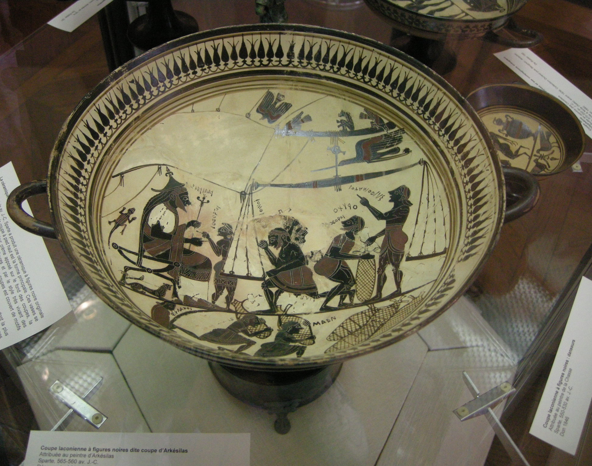 Laconian black-figure cup found Vulci, Etruria. On tondo: the Cyrenian king Arkesilas watching over the bundling of wool (Boardman) or the preparation of silphion. top view